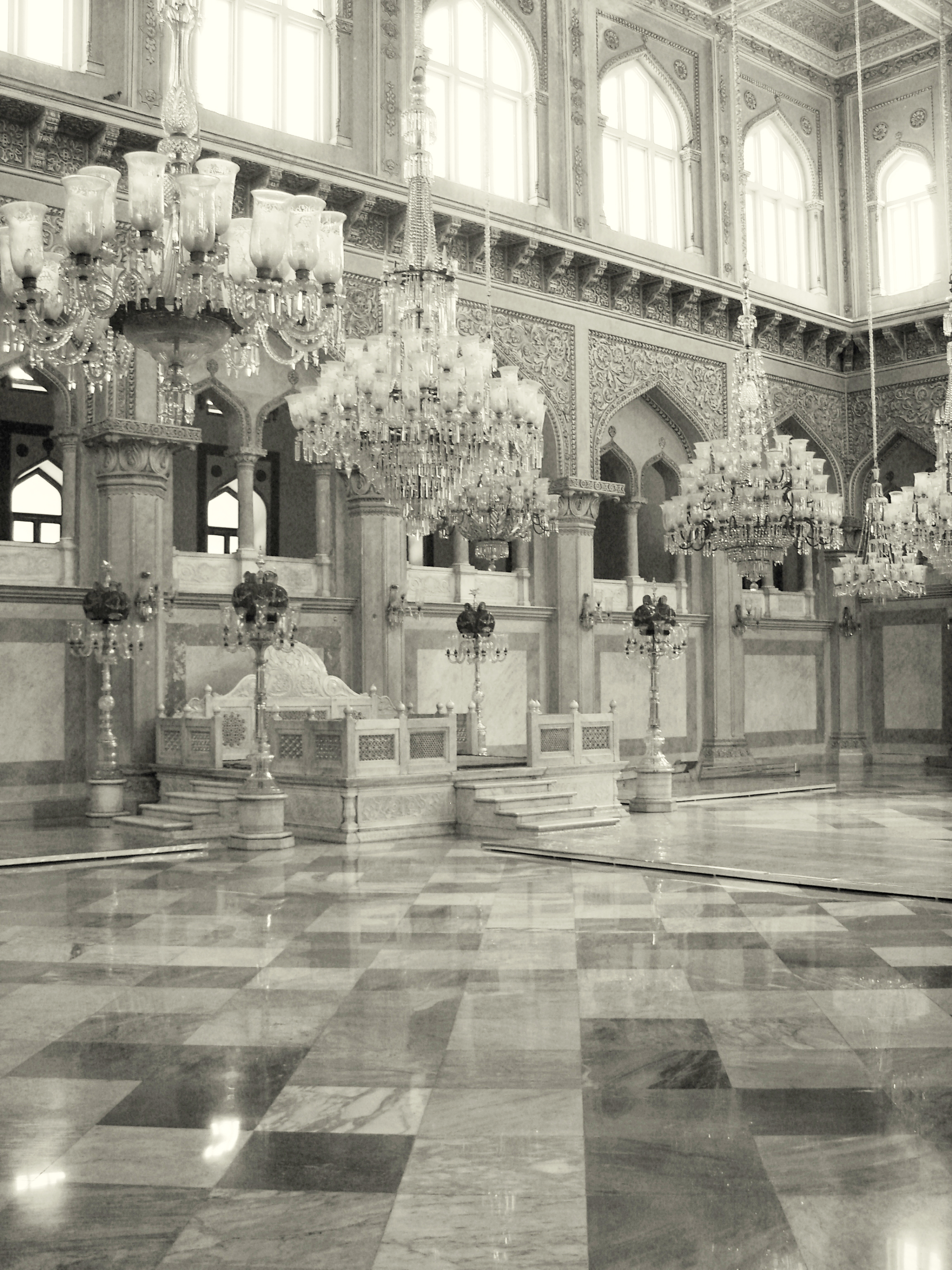 The Chowmahalla Palace was the seat of the Asaf Jahi dynasty and was the official residence of the Nizam. The Telangana region was the heart of numerous dynasties. Chowmahalla Palace was home to the Nizams of Hyderabad state. Khilwat Mubarak.